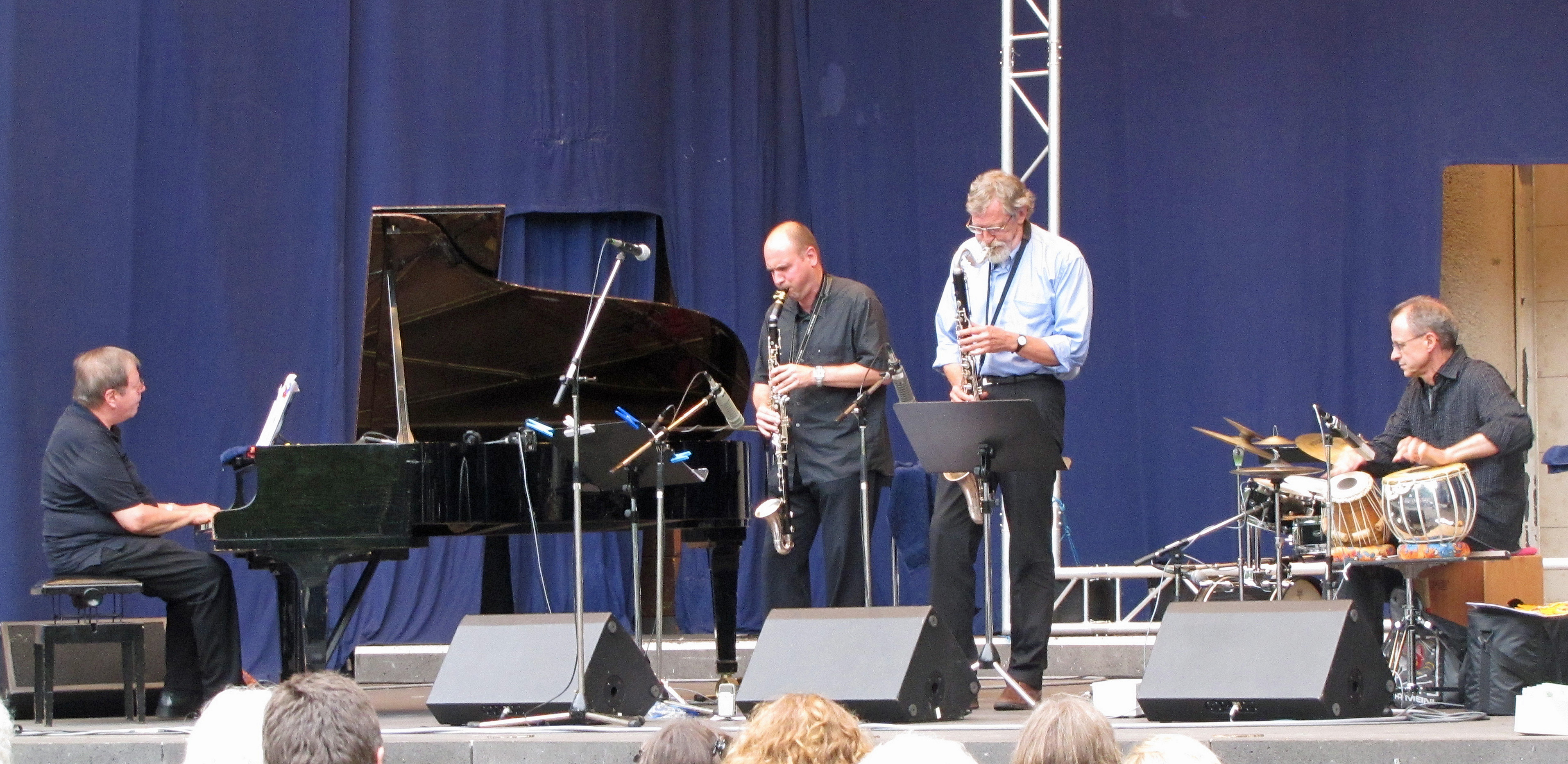 "Zitrone und Zimt" (Lemon and Cinnamon)-Band (Bob Degen; p, Michel Pilz; bcl, Burkard Kunkel; basset-horn, Willi Kappich; tablas, dr, perc), 2010 at "Palmengarten" in Frankfurt am Main, Germany